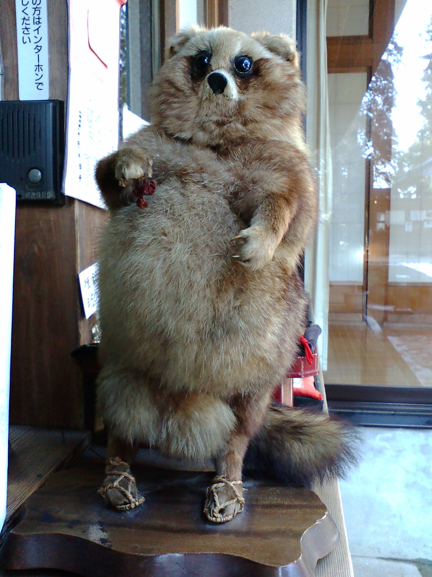 Taxidermy of Raccoon Dog, at temple Morinji where folklore of Bunbuku Chagama is, Tatebayashi, Gunma pref. Japan, wearing the waraji on feet, 2008 Feb., 11